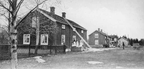 Houses in the port of Kylören, Västerbotten county, around 1900.